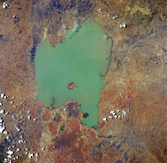 Lake Tana, Ethiopia - April 1991. Low-oblique, west-looking photograph (now after 270 degree rotation north-looking). Located in the central highlands of Ethiopia, Lake Tana, the country’s largest lake, covers 1400 square miles (3625 square kilometers). The lake is 47 miles (76 kilometers) long and 44 miles (71 kilometers) wide and sits at an elevation of 6000 feet (1830 meters) above sea level.